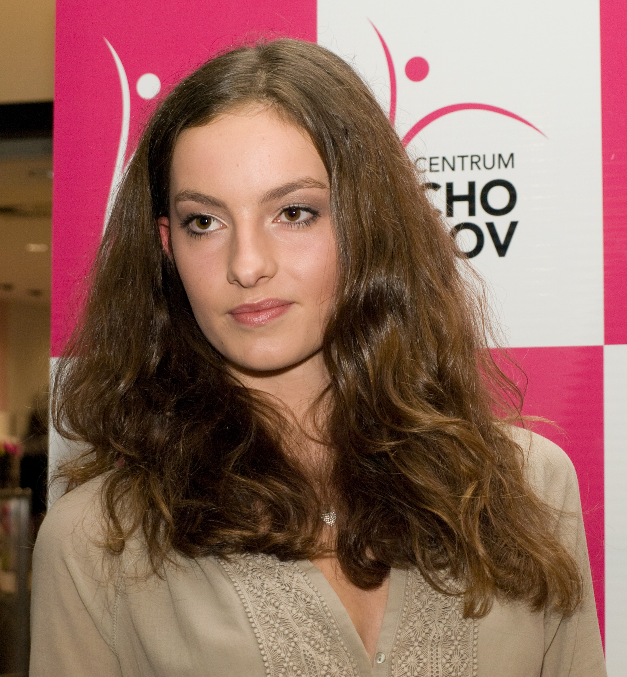 Czech model Tereza Klimešová (winner of the Elite Model Look Czech Republic 2010).